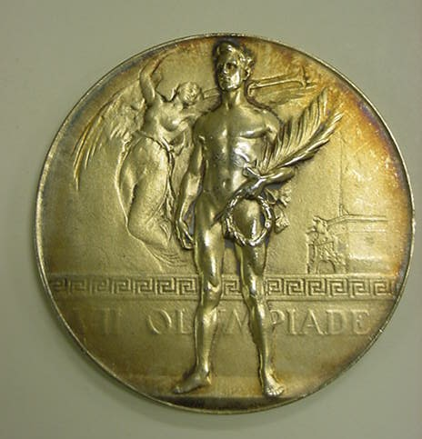 Accession: 2000-158-19 Medal, Olympics, 1920, Antwerp, Gold 2.35" Diameter One of four gold medals awarded to Captain Carl T. Osburn at the 1920 Olympics. He was awarded gold medals for: free rifle team, 300 and 600M free rifle team prone, army rifle 300m standing, 300m free rifle prone team. He was also awarded a bronze medal for 100m running deer single shots team and a silver medal for, 300m free rifle standing team. The medal was designed by Josue Dupon and the reverse features a monument to the mythical Roman Soldier Silvius Brabo, who was said to have thrown the hand of a toll charging giant into the River Scheldt at Antwerp. Collection of Curator Branch, Naval History and Heriatge Command.